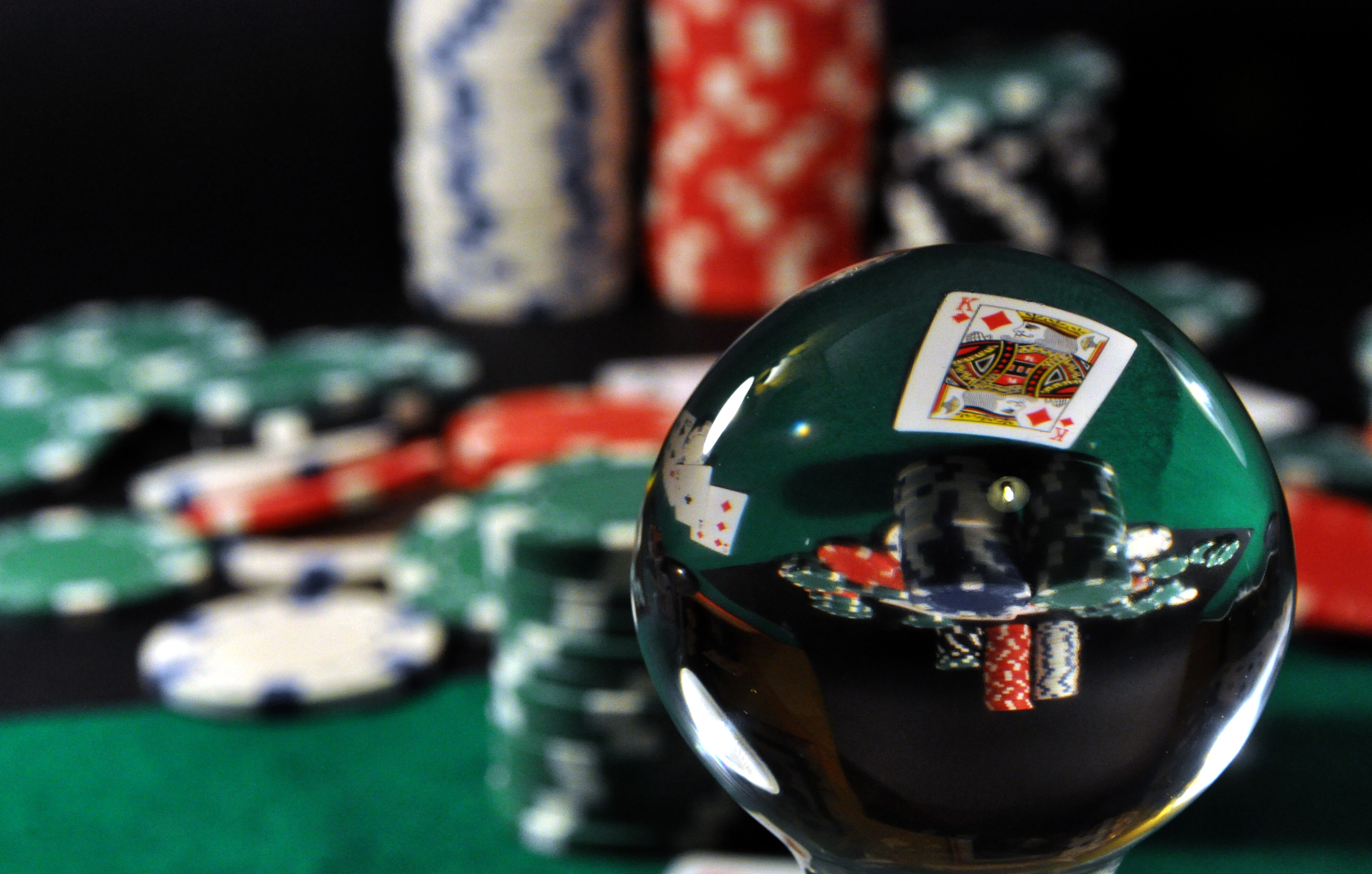 King playing card and casino tokens.